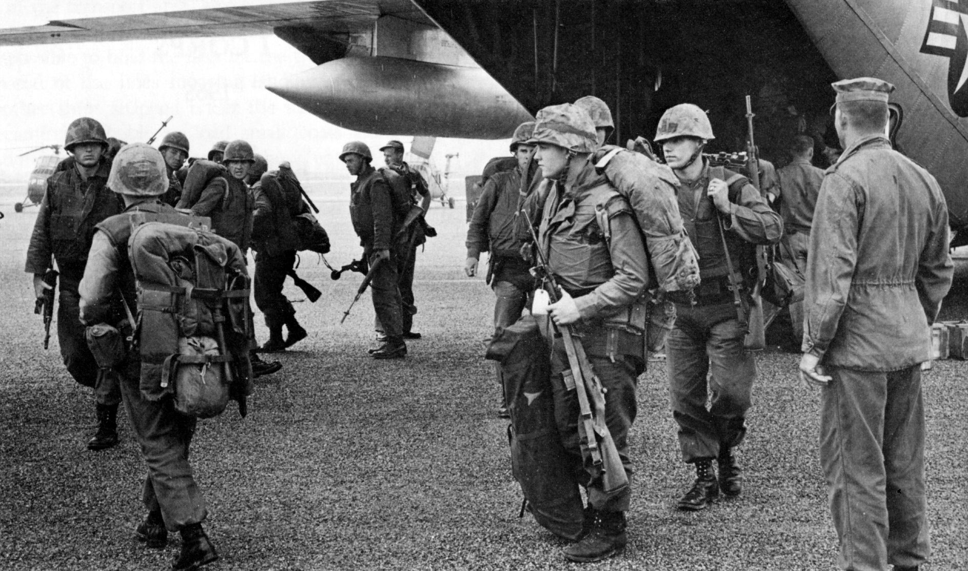 Marines from the 1st Battalion, 3d Marines disembark from U.S. Air Force C-130 transports at the Da Nang Airbase on 8 March. The airlift of the battalion was held up for 24 hours shortly after these Marines arrived